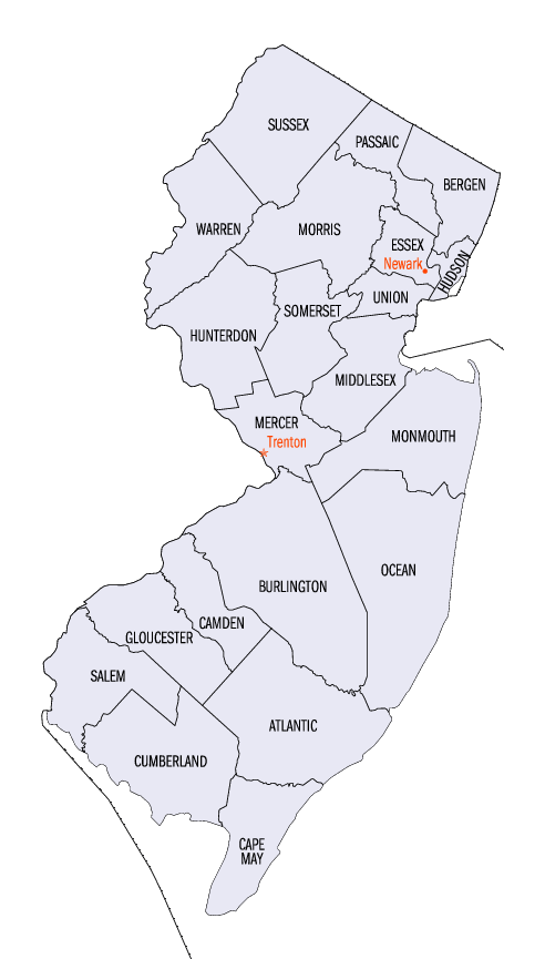 New Jersey county map